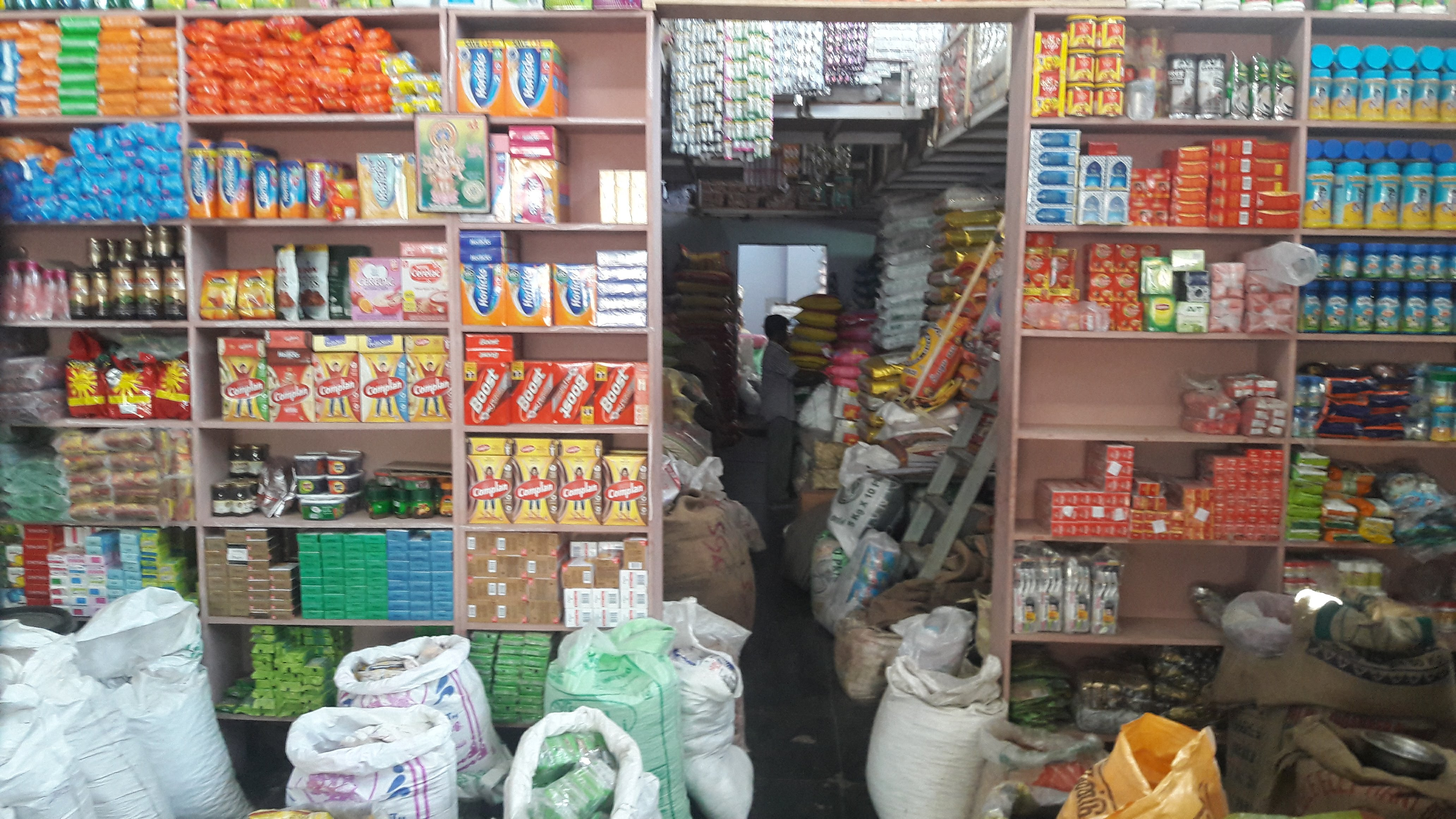 Grocery store in India.